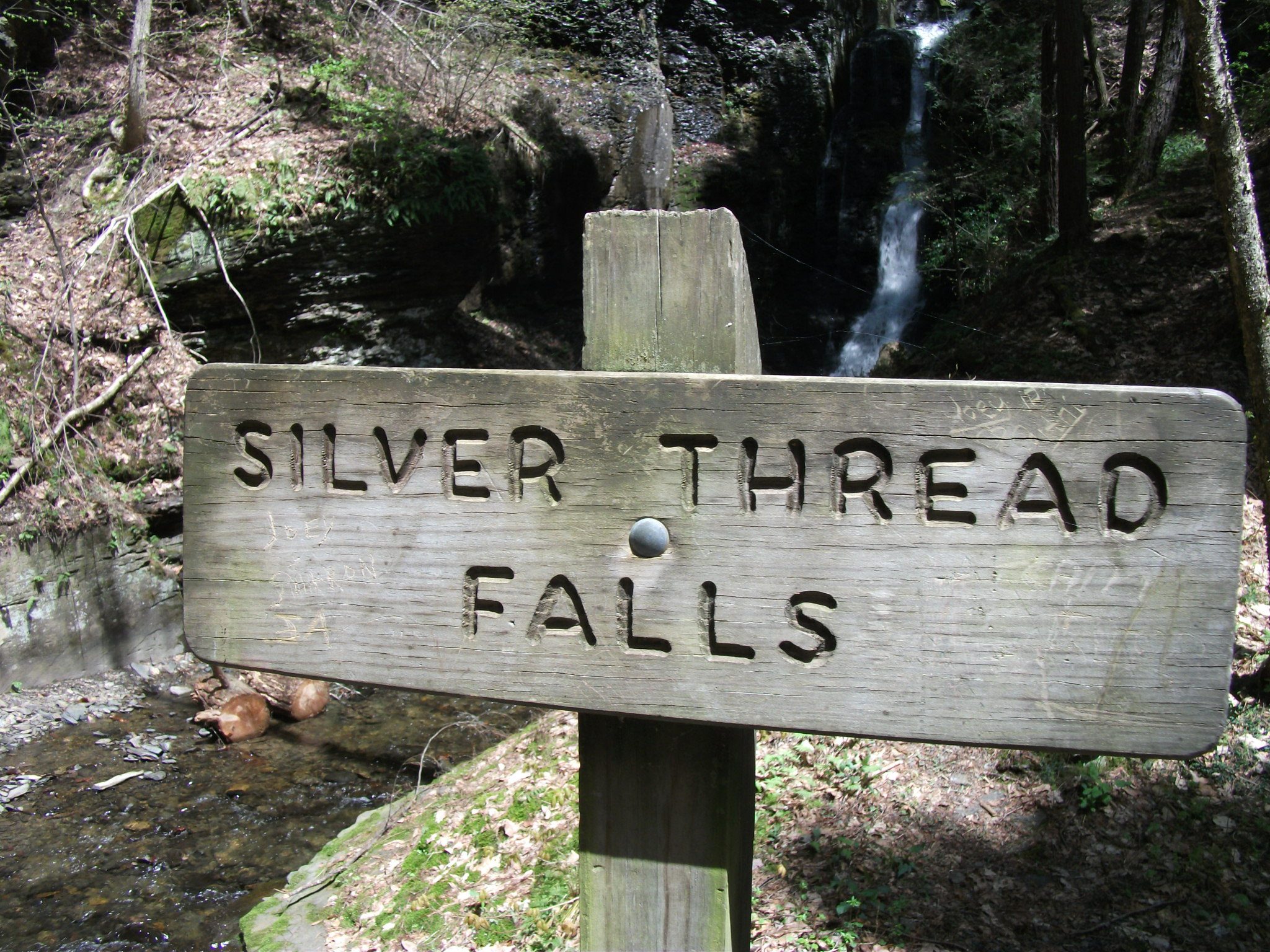 Silver Thread Falls - Pennsylvania